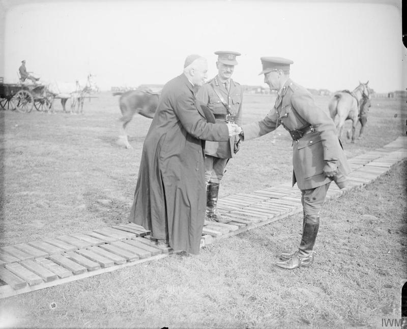 The Official Visits To the Western Front, 1914-1918 Cardinal Francis Bourne, the Head of the Catholic Church in England and Wales; Major-General William Hickie, the Commander of the 16th Irish Division; and Brigadier General F. W. Ramsay, the Commander of the 48th Brigade, on the parade ground at Ervillers, 27 October 1917.